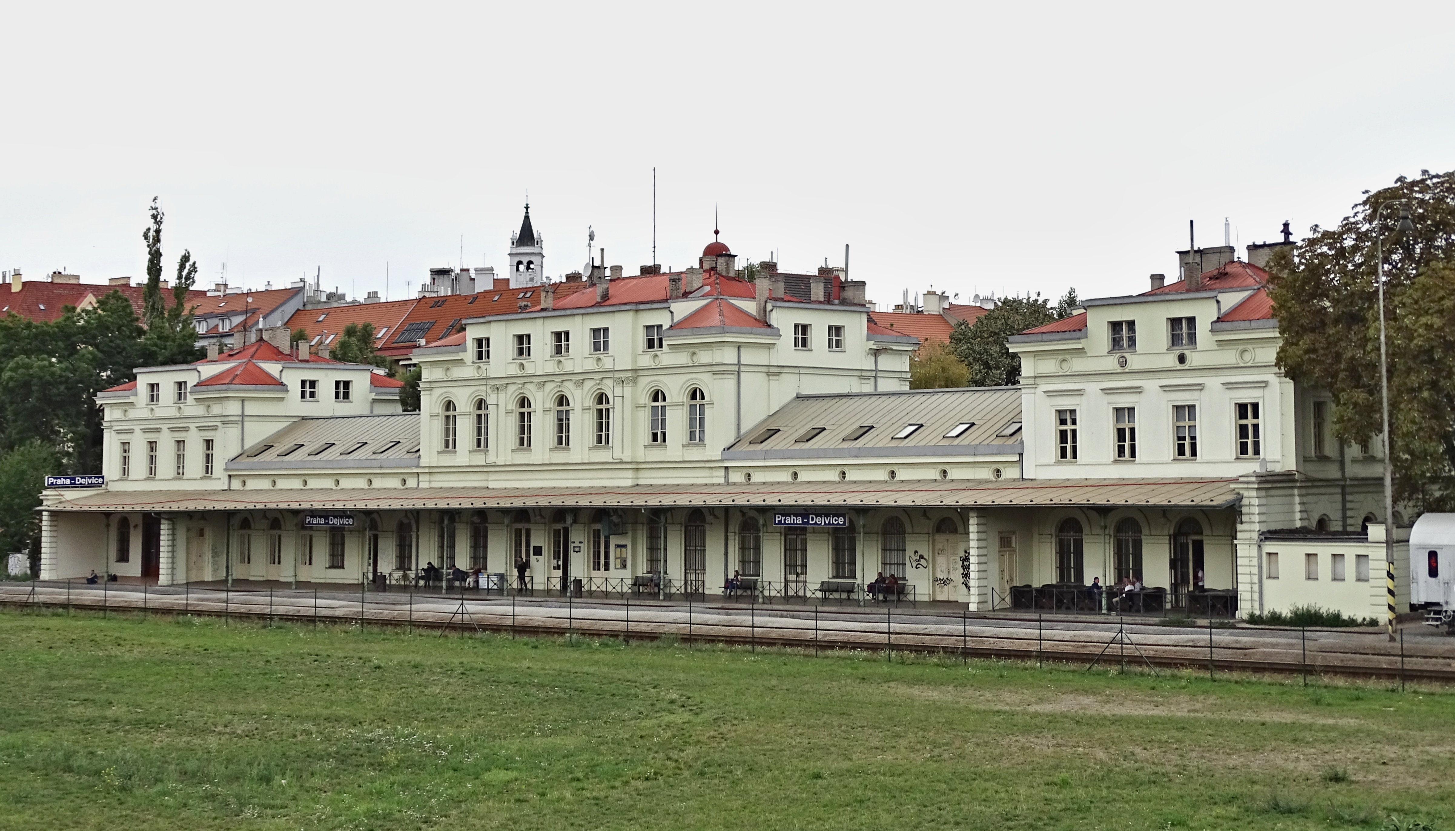 Prague-Dejvice, Czech Republic. Train station Praha-Dejvice.